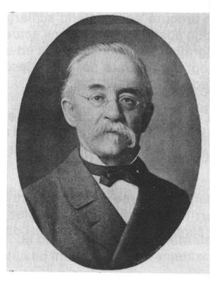 Gion Antoni Bühler, Swiss author, 1825 - 1897.